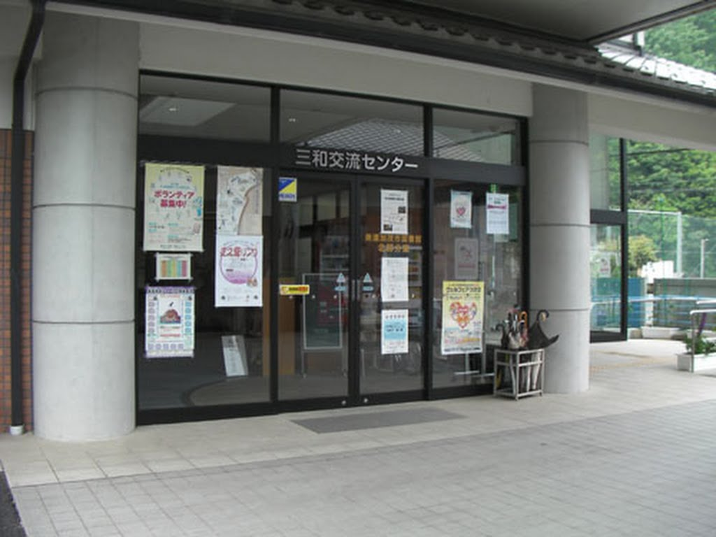 This is Miwa Exchange Center in Minokamo, Gifu, Japan. It has North Branch Library of Minokamo Municipal Library.